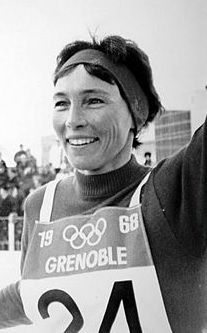 Soviet cross-country skier Alevtina Kolchina at the 1968 Winter Olympics in Grenoble, France.